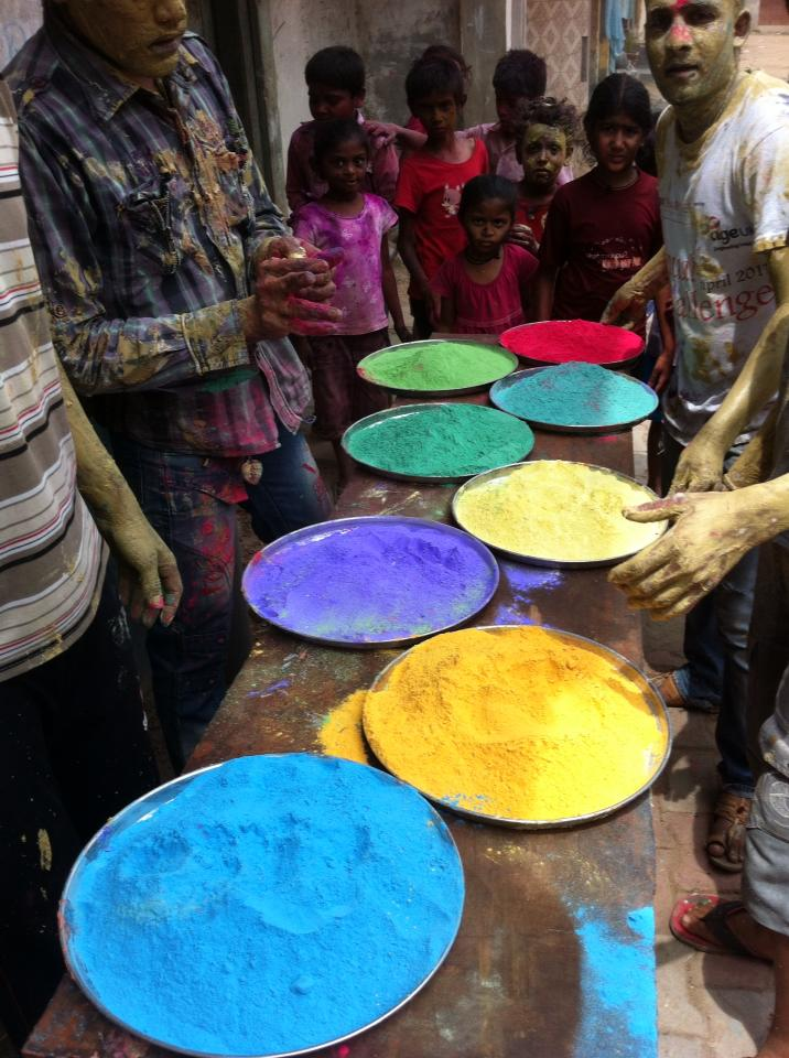 HOLI celebratation VATAV, All people (kids, youth, elders) enjoys this festival and they all eagerly wait for whole year to celebrate this day.